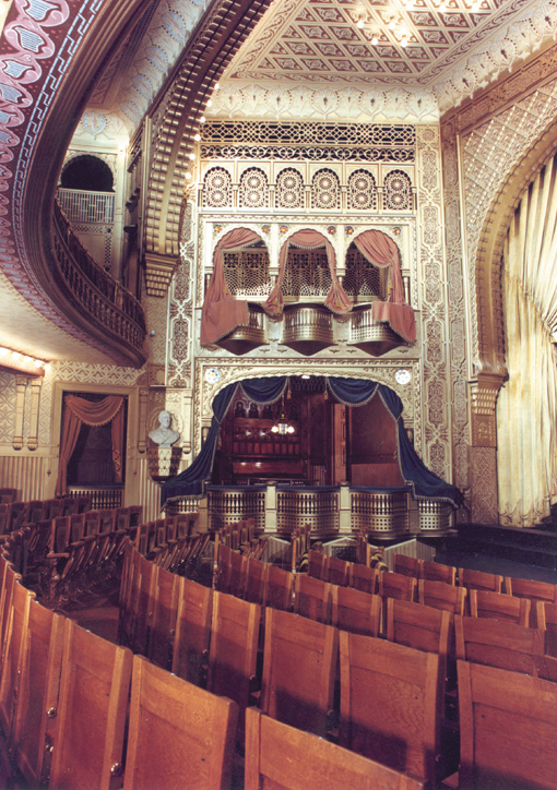 Mable Tainter Theatre, Menomonie, Wisconsin